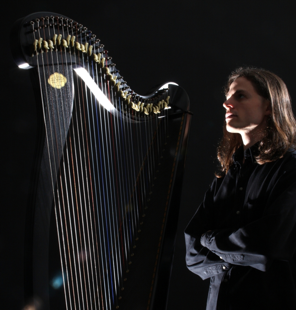 Tristan Le Govic, Celtic harp Gàidhlig: Tristan Le Govic, Clàrsach